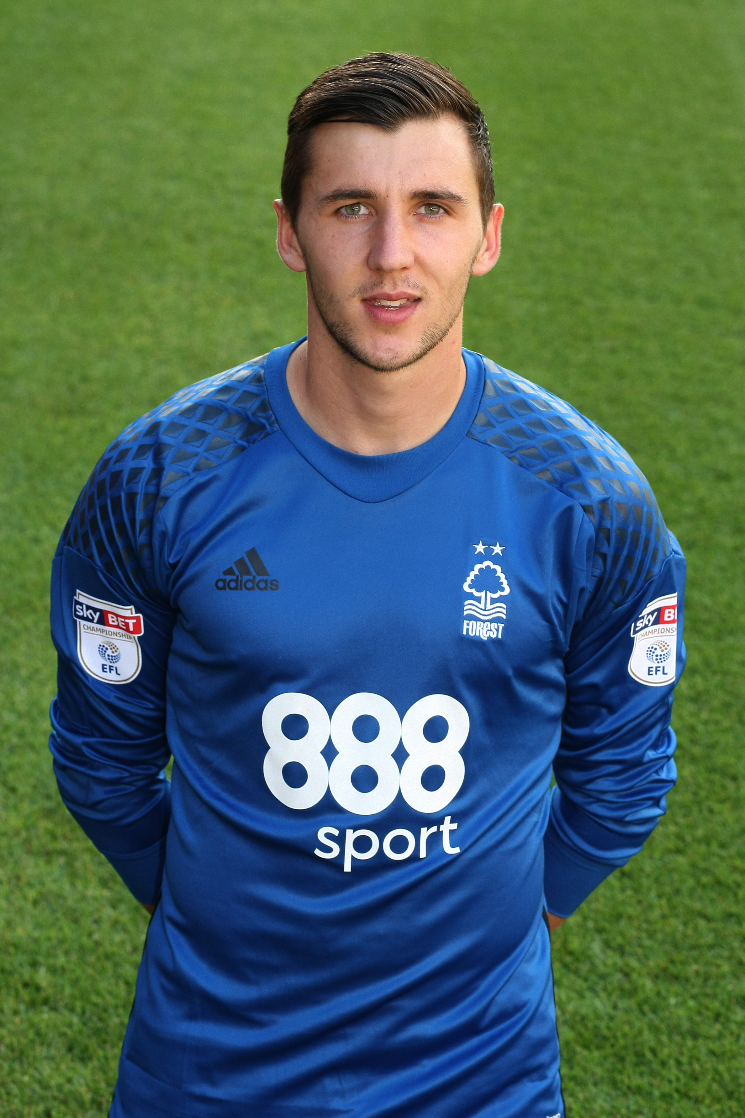 Jordan Smith in Nottingham Forest goalkeeper kit, 2016